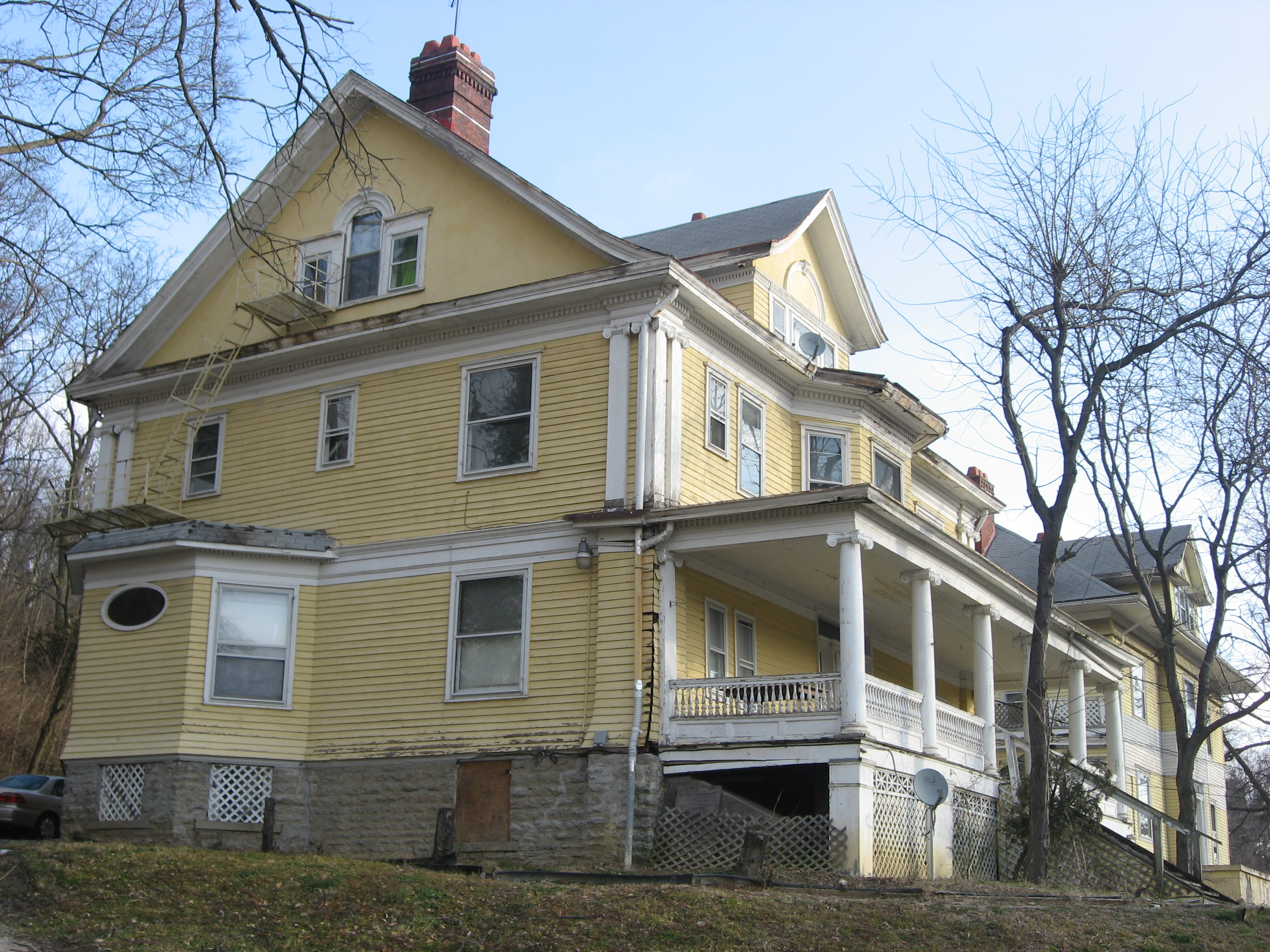 Front and western side of the Daniel Thew Wright House, located at 3716 River Road (U.S. Route 50) in the Riverside neighborhood of Cincinnati, Ohio, United States. Built in 1895, it is listed on the National Register of Historic Places.